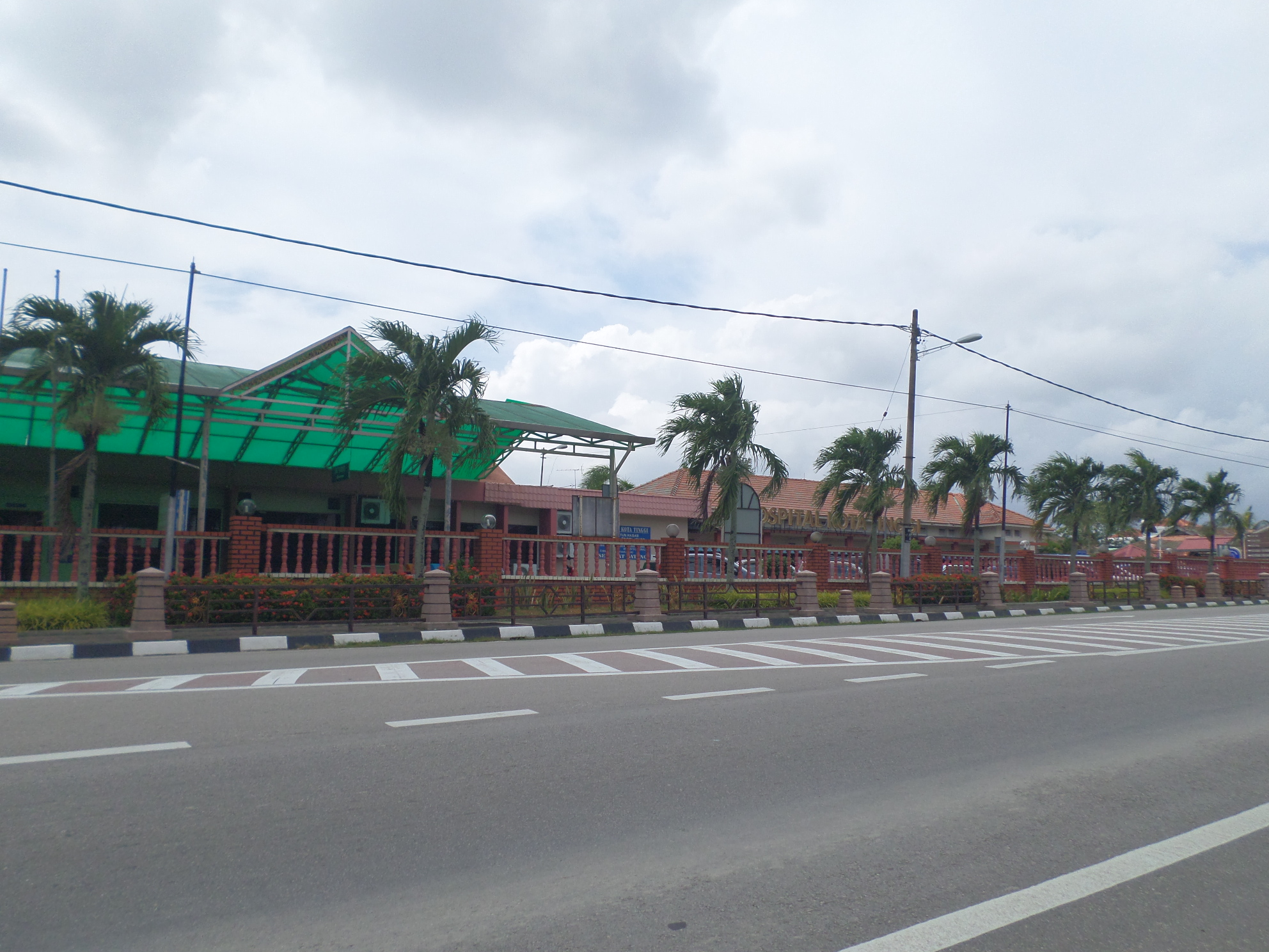 Kota Tinggi Hospital, Kota Tinggi, Johor, Malaysia